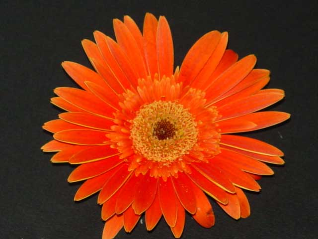 A Gerbera jamesoni flower, or Barberton daisy. Photo by M. A. P. Accardo Filho.